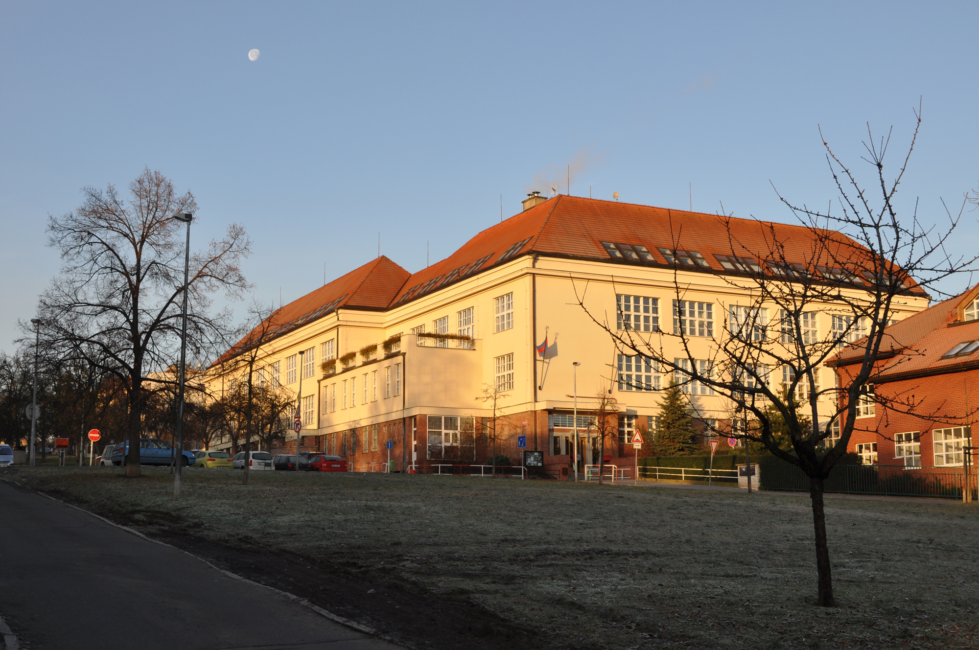 Prague-Dejvice, the Czech Republic. Na Hanspaulce street, elementary school.